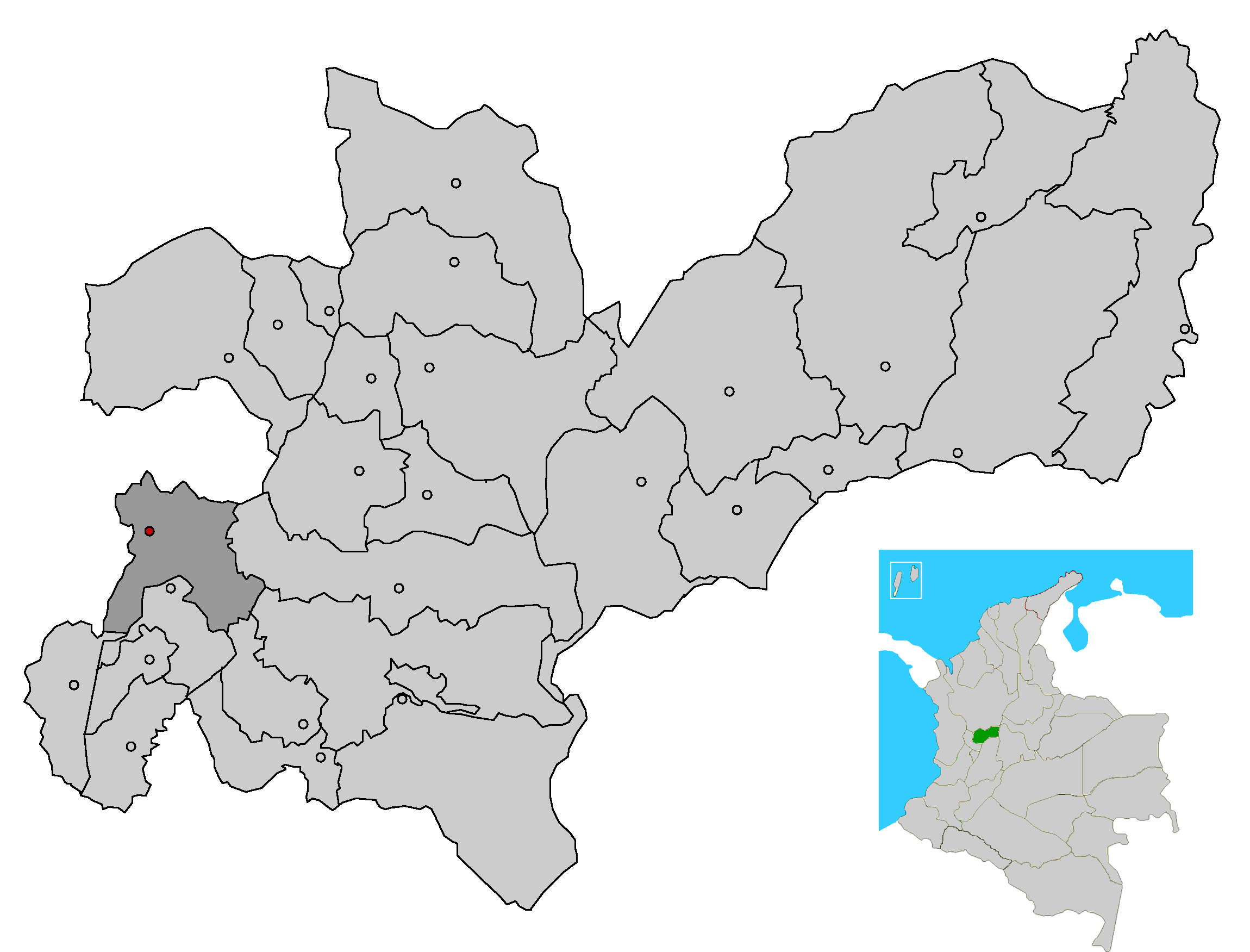 Image depicting map location of the town and municipality of Anserma in Caldas Department, Colombia